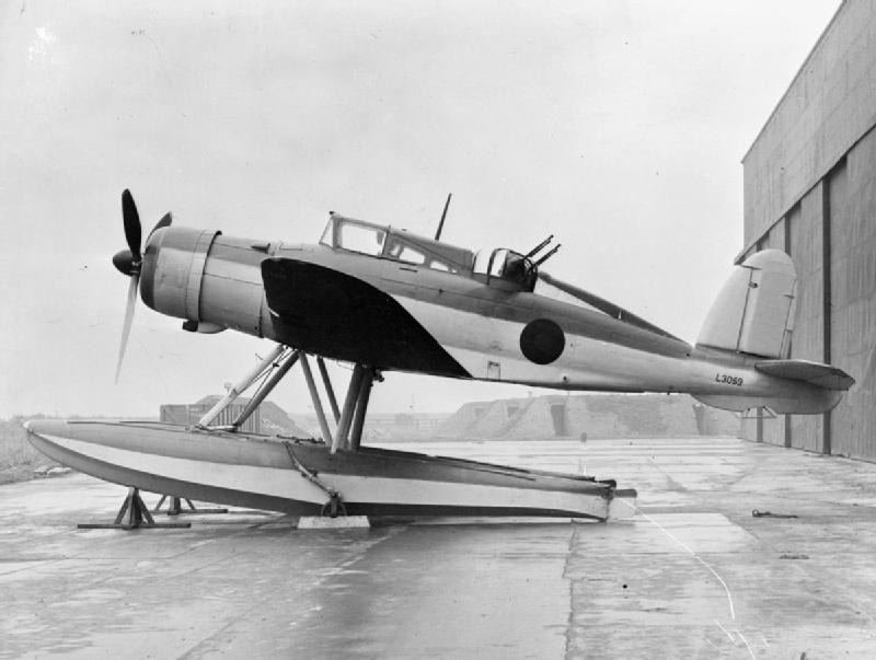 Aircraft of the Fleet Air Arm, 1939-1945. The Blackburn Roc Mark I, seaplane, L3059, parked on trestles outside the hangars at the Marine Aircraft Experimental Establishment, Felixstowe, Suffolk.